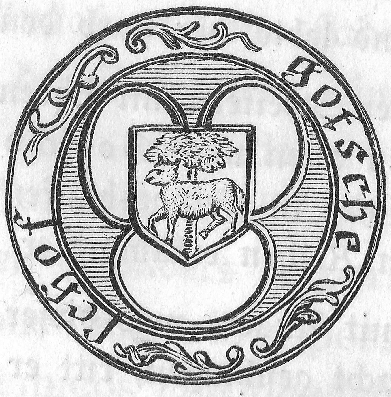 Seal of Gotsche II. Schoff on a document of 1392